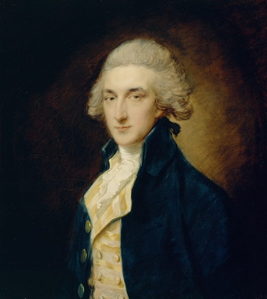 Portrait of Sir John Swinburne, 6th Baronet (1762–1860), English politician and patron of the arts.